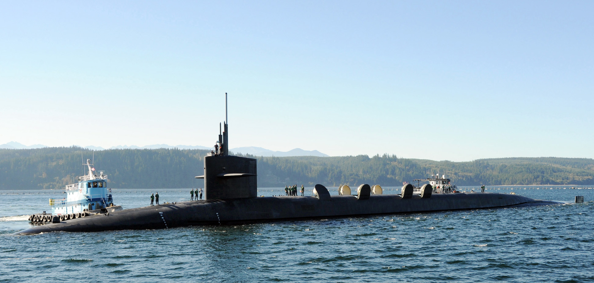 BANGOR, Wash. (Sept. 29, 2010) The Ohio-class ballistic submarine USS Alabama (SSBN 731) returns to Naval Base Kitsap from a deterrent patrol. (U.S. Navy photo by Ray Narimatsu/Released)